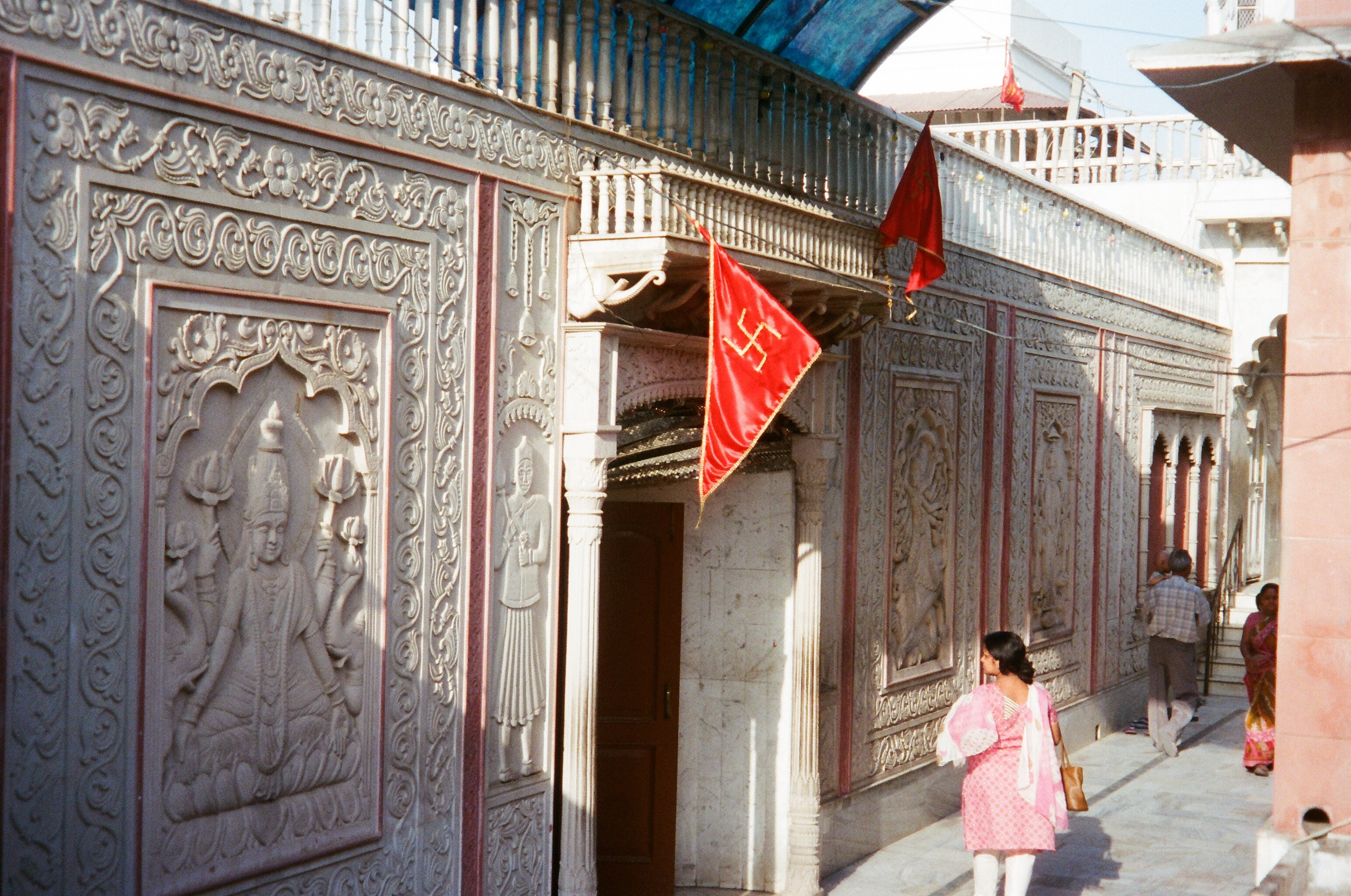 Entry door to the Yogmaya precincts